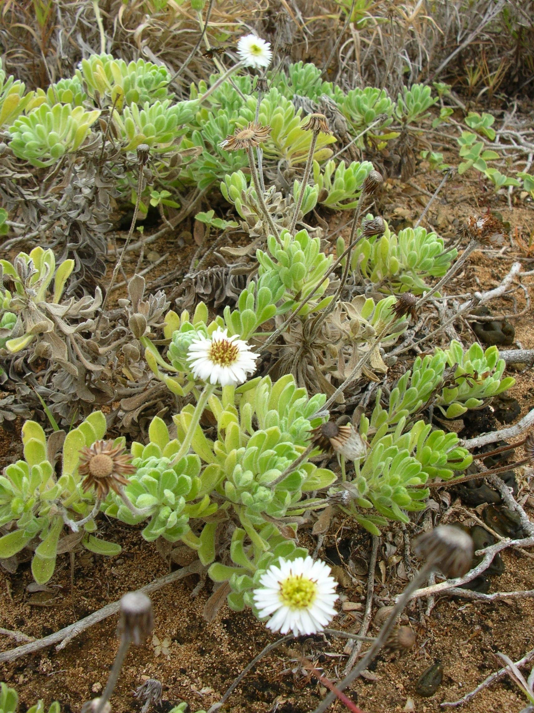 Tetramolopium rockii (flowers). Location: Molokai, Moomomi